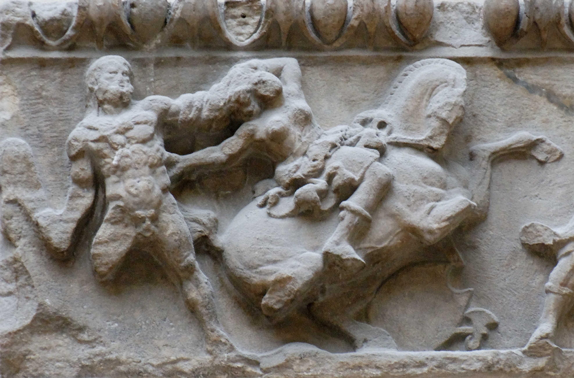 Heracles fighting the Amazons, detail of an Amazonomachy. Slab 32 of the frieze of the temple of Artemis Leukophryene at Magnesia on the Maeander, 2nd century BC.